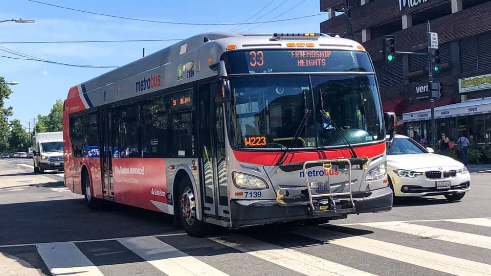 WMATA New Flyer XDE40 7119 on Route 33 in Friendship Heights